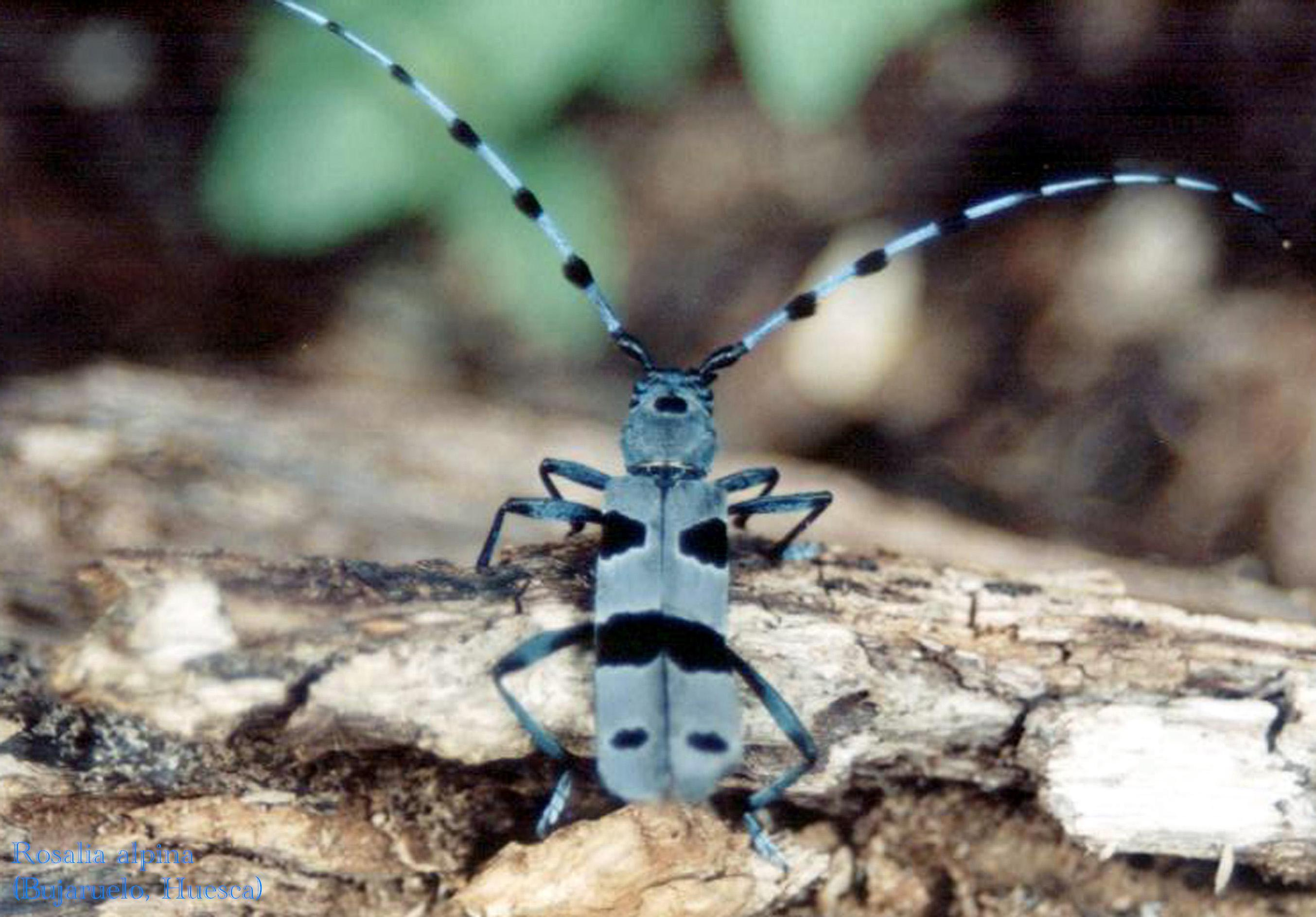 Male of Rosalia alpina (Linnaeus, 1758). Picture taken at the Bujaruelo valley (Central Pyrenees, Spain). Author: José-Manuel Echevarría.